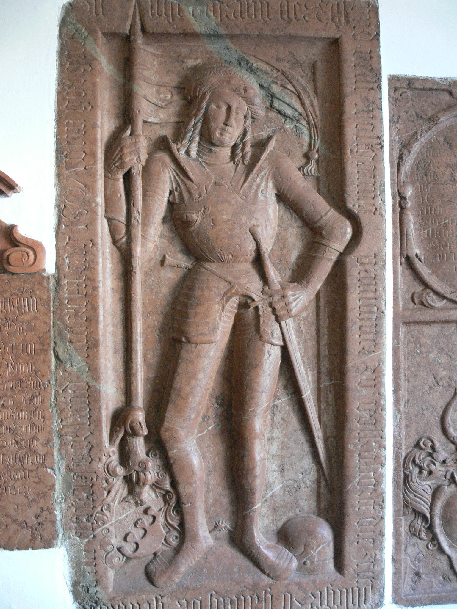 Kuchl parish church ( Salzburg ). Epitaph of Wolfgang Panicher, administrator in Golling ( 1507 )